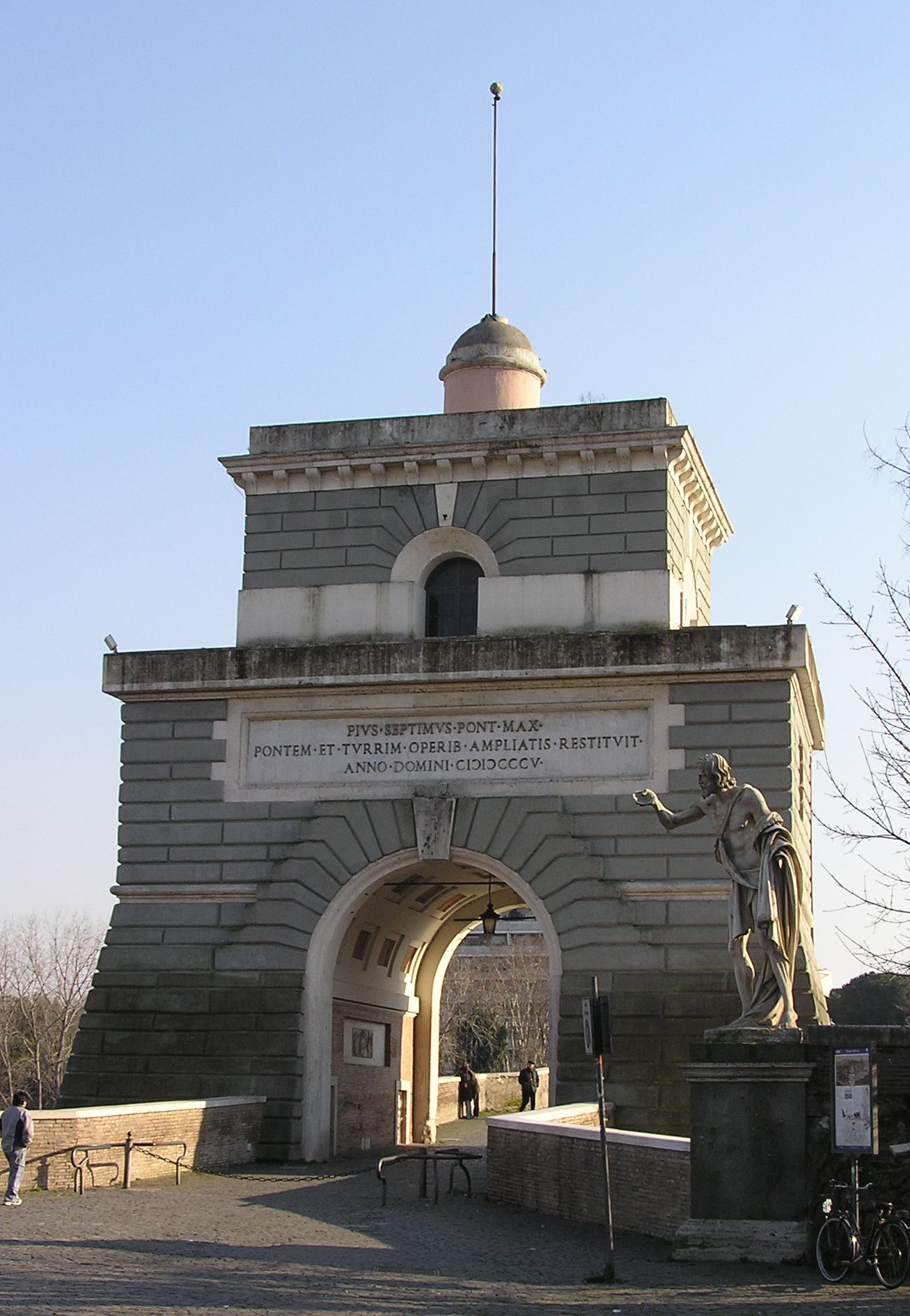 The Milvian Bridge, Rome